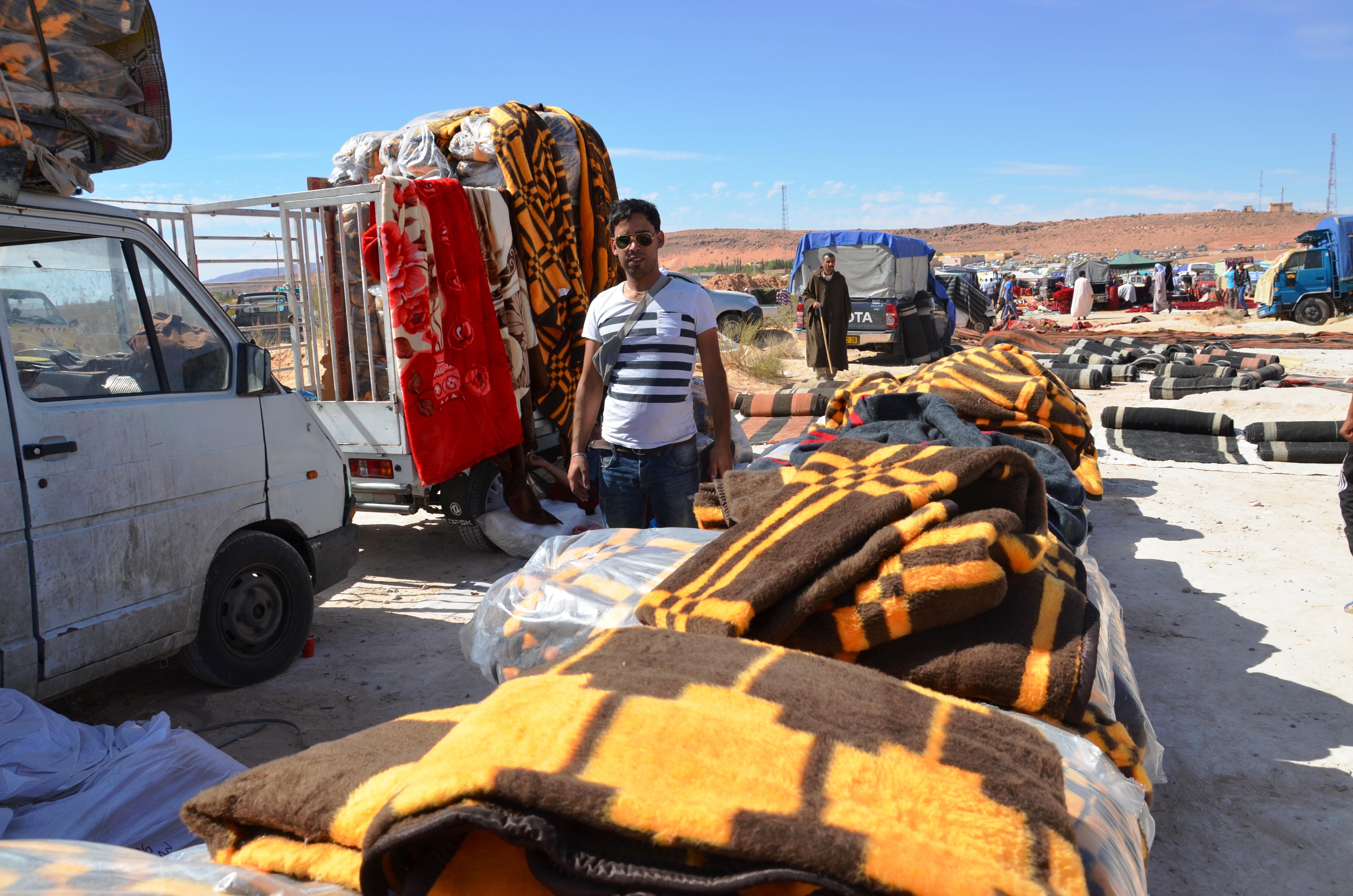 This is an image with the theme "Africa on the Move or Transport" from: Algeria